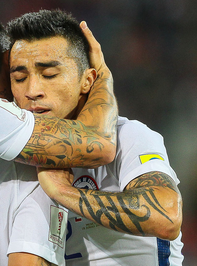 Cameroon vs Chile (0-2). FIFA Confederations Cup 2017